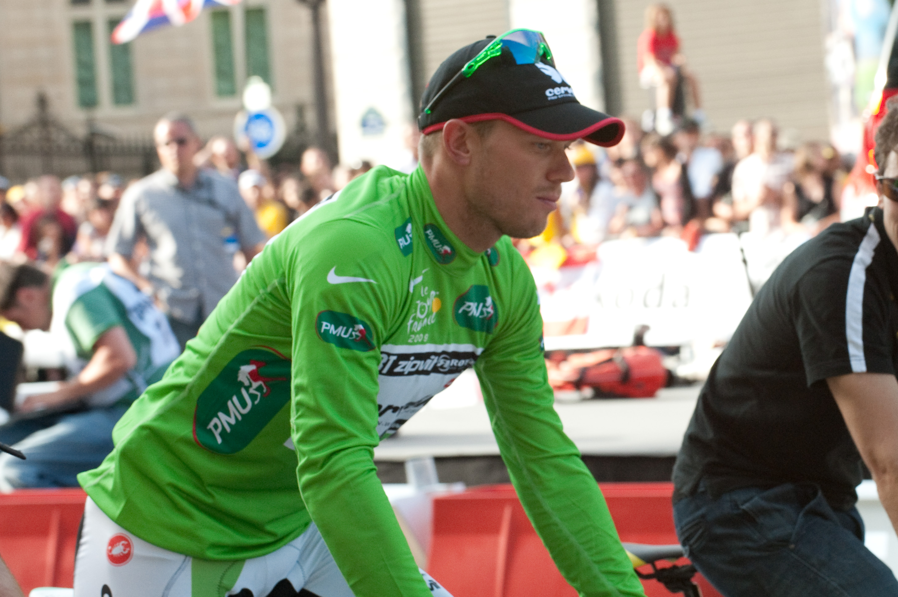 Thor Hushovd in the green jersey, in Paris, during the 2009 Tour de France.